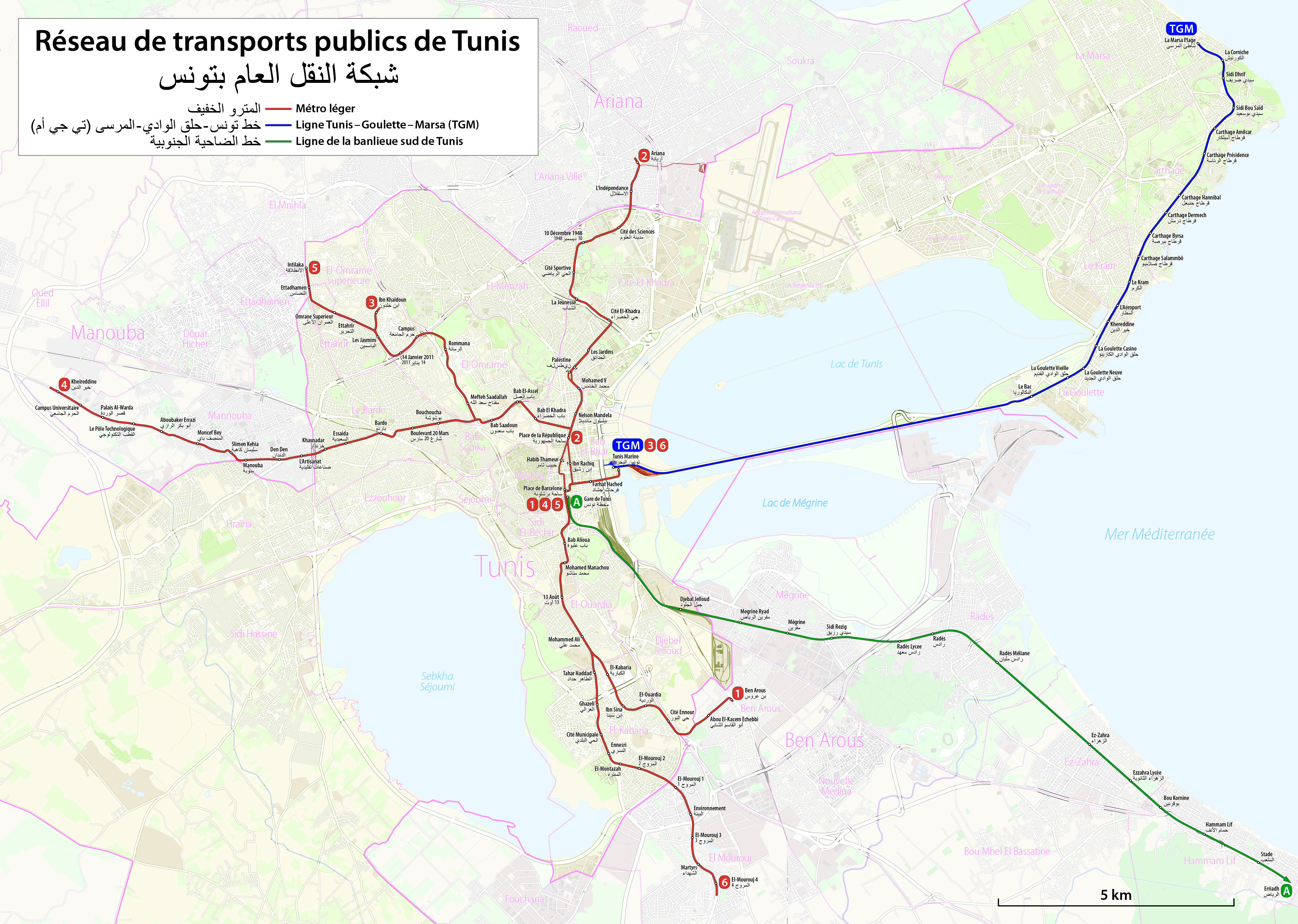 Tunis Rapid Transit Map (light rail and suburban trains)